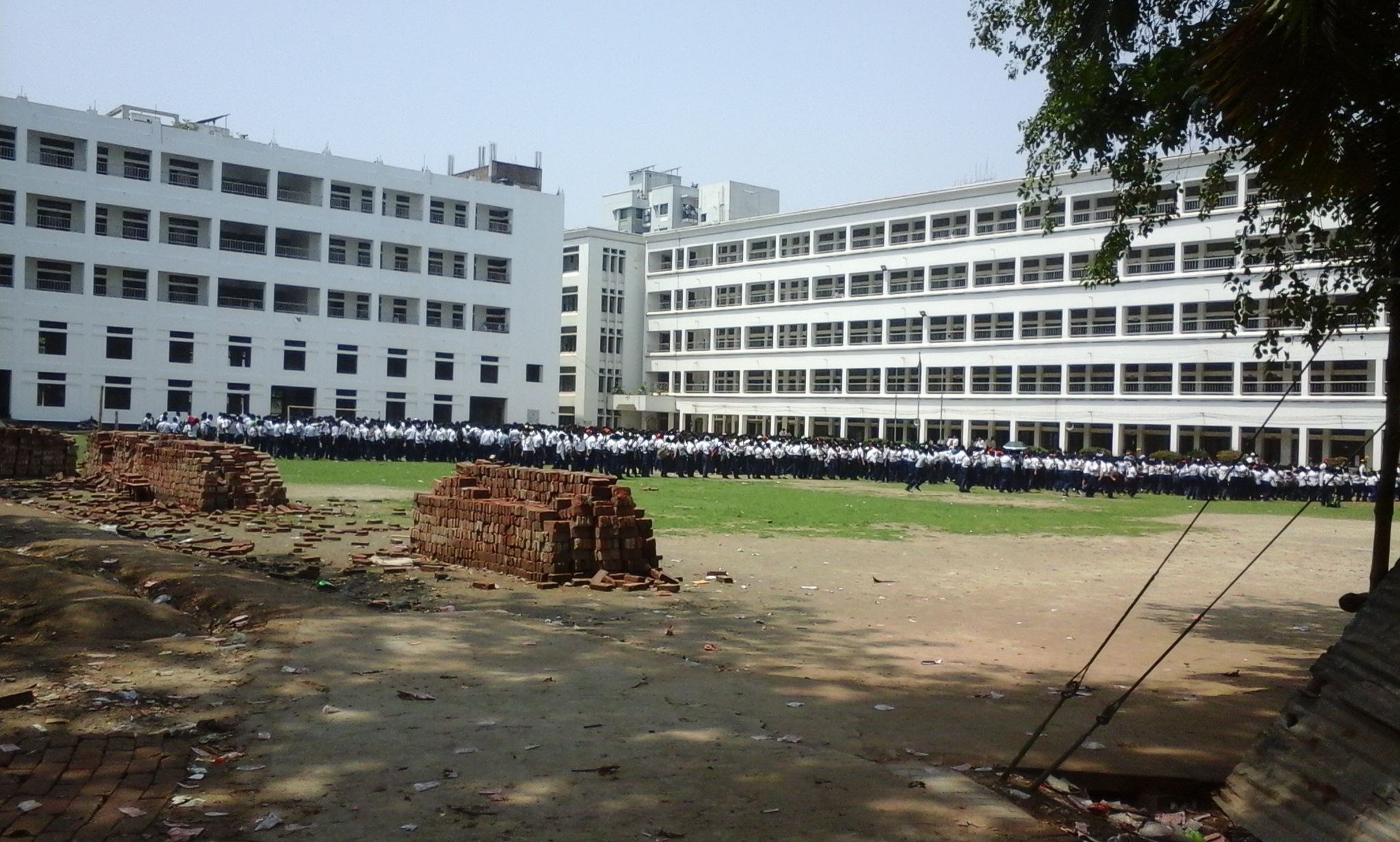 This is Uttara High School And College